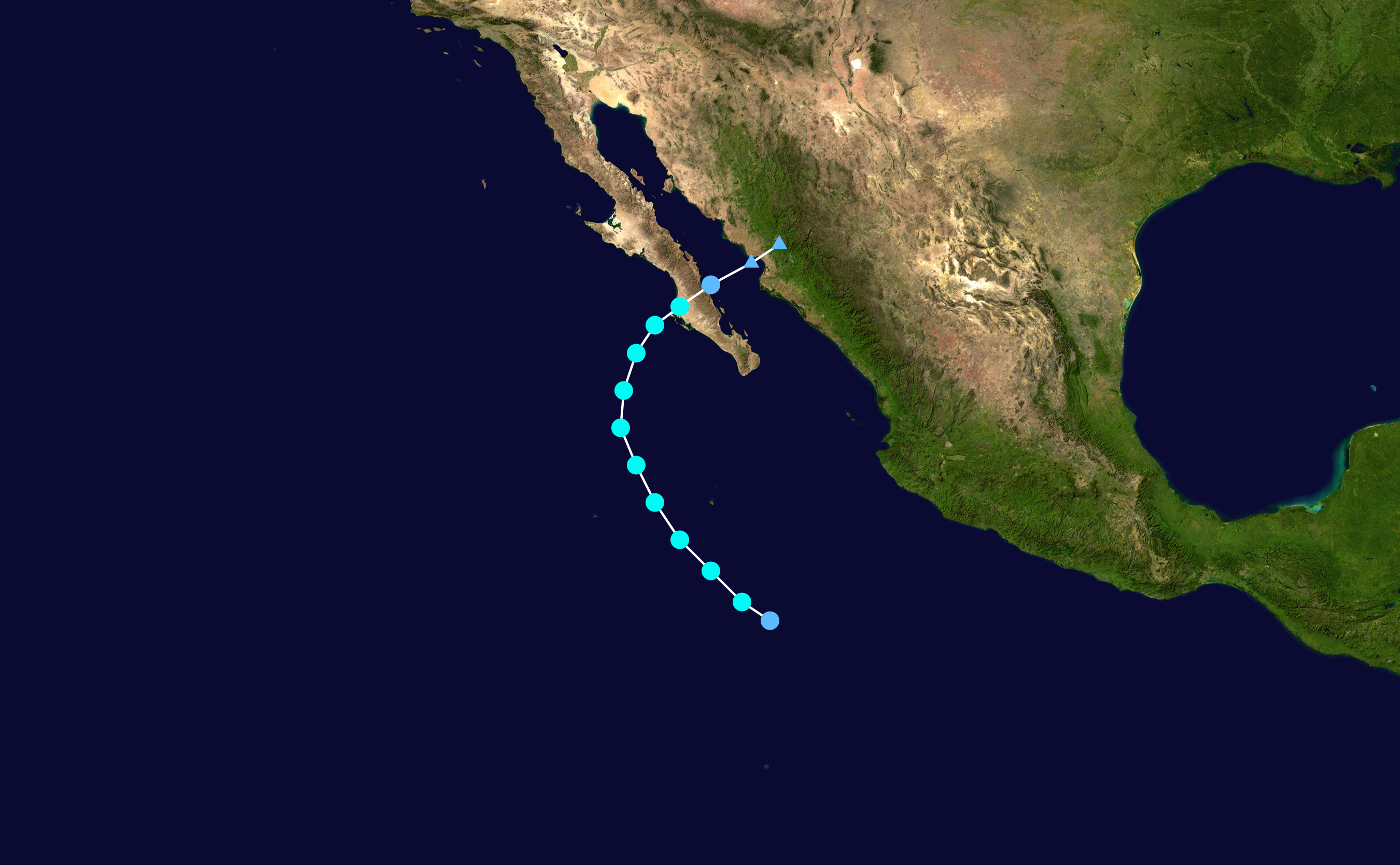 Track map of Tropical Storm Octave of the 2013 Pacific hurricane season. The points show the location of the storm at 6-hour intervals. The colour represents the storm's maximum sustained wind speeds as classified in the Saffir–Simpson scale (see below), and the shape of the data points represent the nature of the storm, according to the legend below. Saffir–Simpson scale Tropical depression≤38 mph≤62 km/h Category 3111–129 mph178–208 km/h Tropical storm39–73 mph63–118 km/h Category 4130–156 mph209–251 km/h Category 174–95 mph119–153 km/h Category 5≥157 mph≥252 km/h Category 296–110 mph154–177 km/h Unknown Storm type Tropical cyclone Subtropical cyclone Extratropical cyclone / Remnant low / Tropical disturbance / Monsoon depression